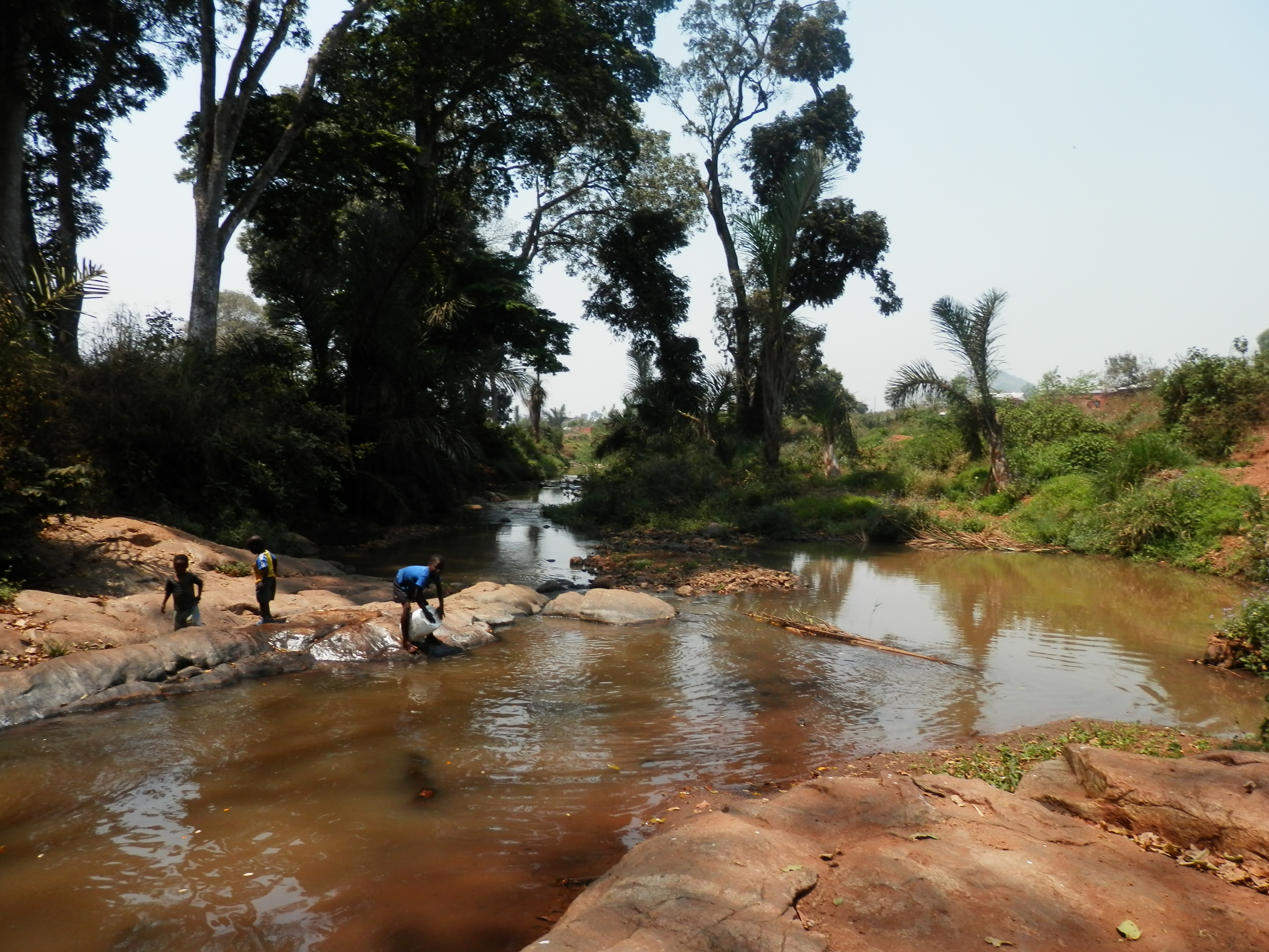 Stretch of Likangala River that flows trough Zomba.